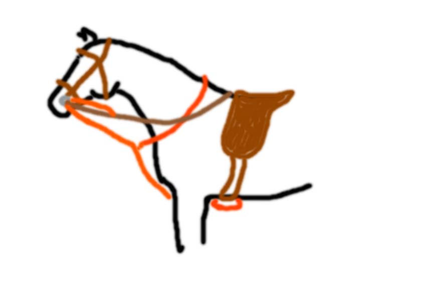 image of the thiedemann combination, looking like a martingale, working like a running rein